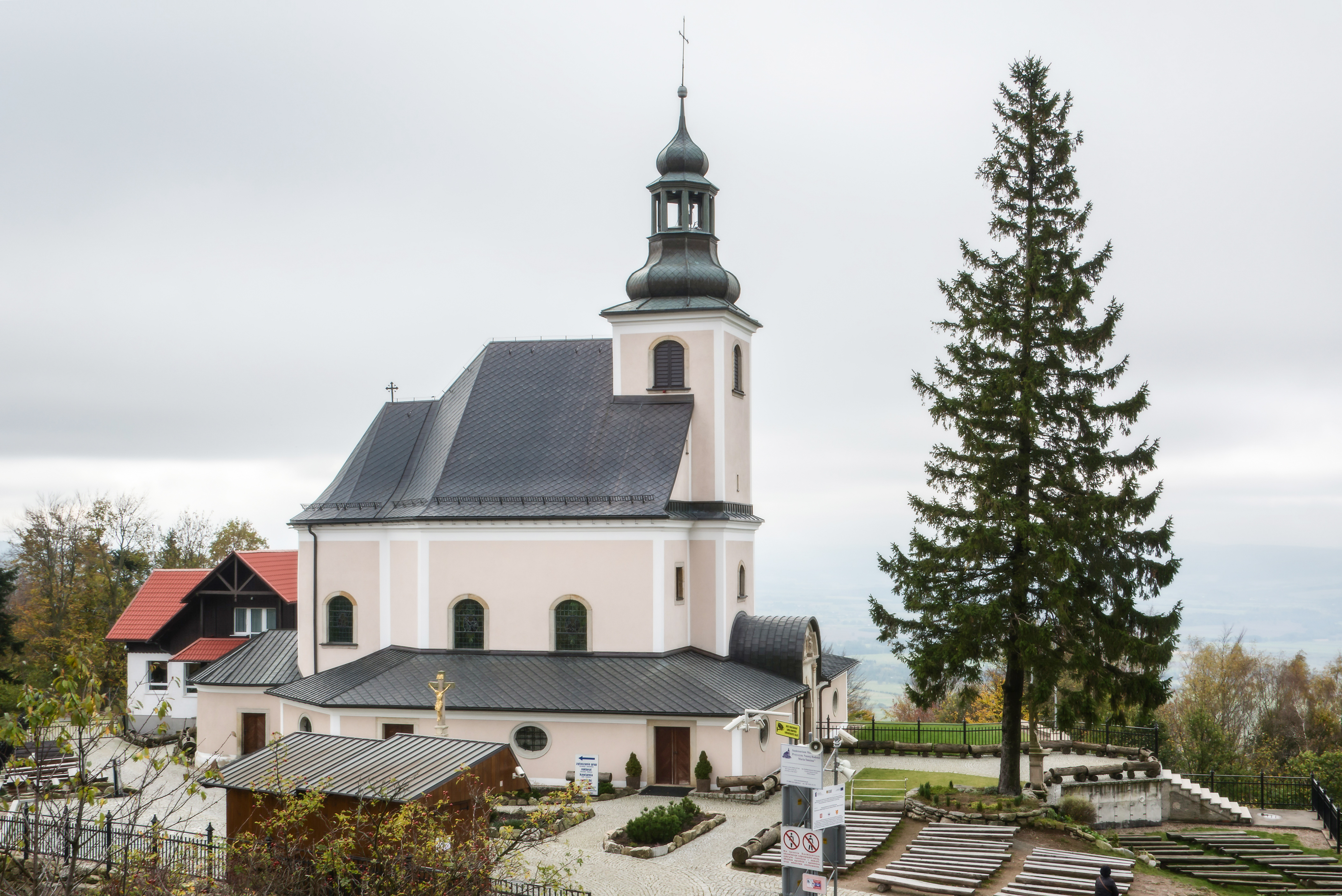 Maria Śnieżna sanctuary